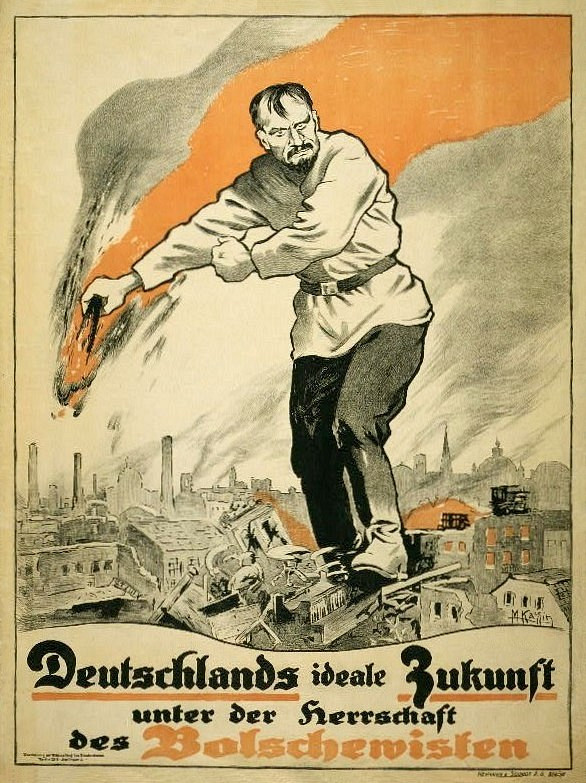 Poster shows a gigantic Russian man standing on the burning ruins of a city. Text: Germany's ideal future under the leadership of the Bolsheviks. Original medium: 1 print (poster) : lithograph, color ; 124 x 93 cm.